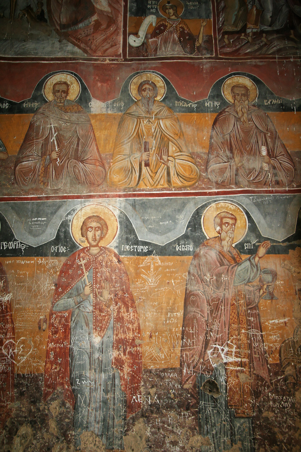 Eani St Demetrius Church Fresco